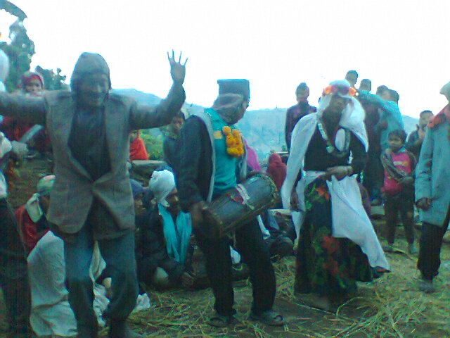 Group of maruni